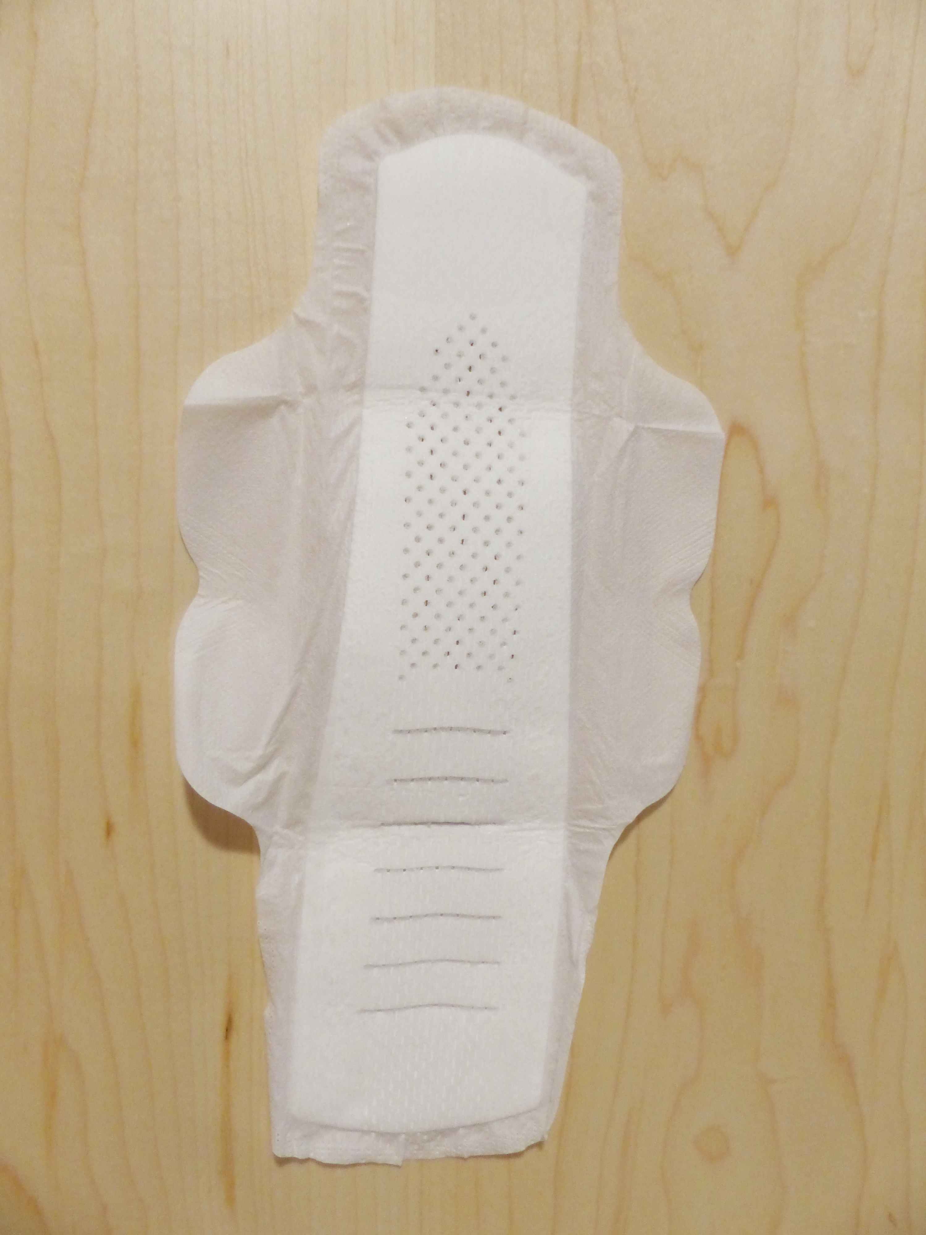 sanitary pad